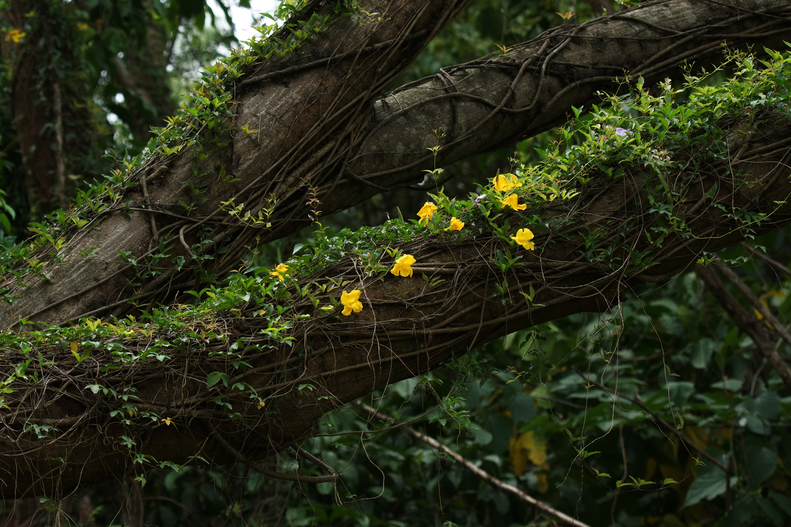 Multiple creepers